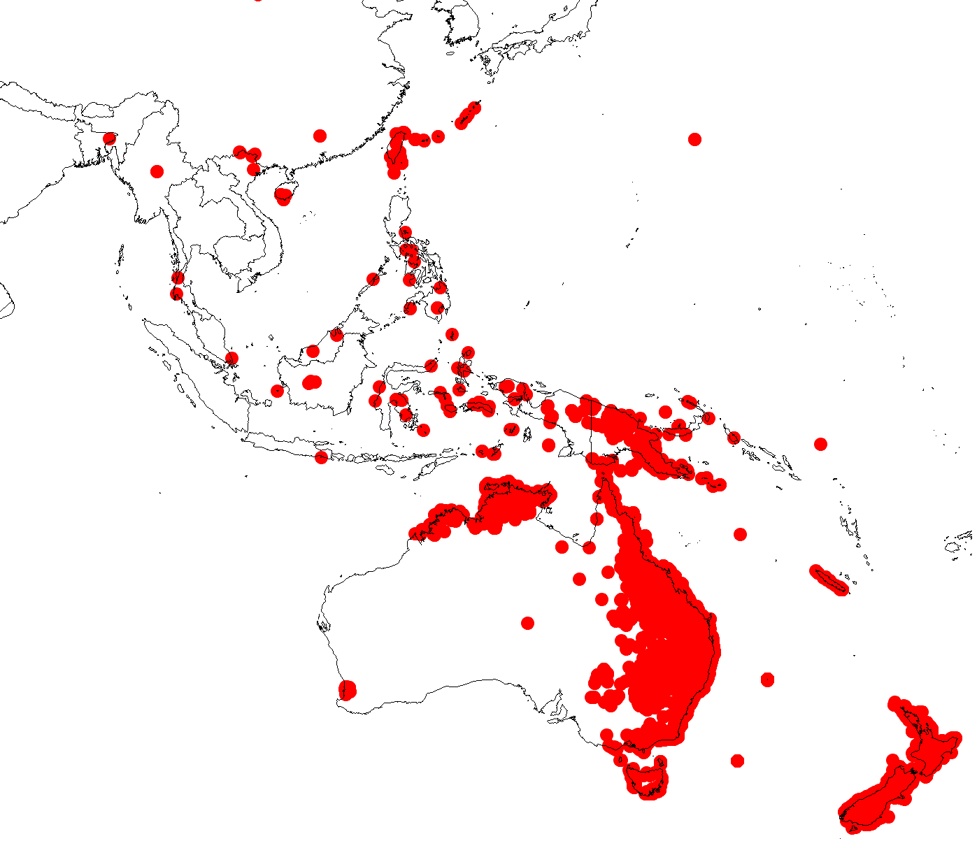 Parsonsia species: Occurrence data downloaded from (21 December 2018) GBIF Occurrence Download